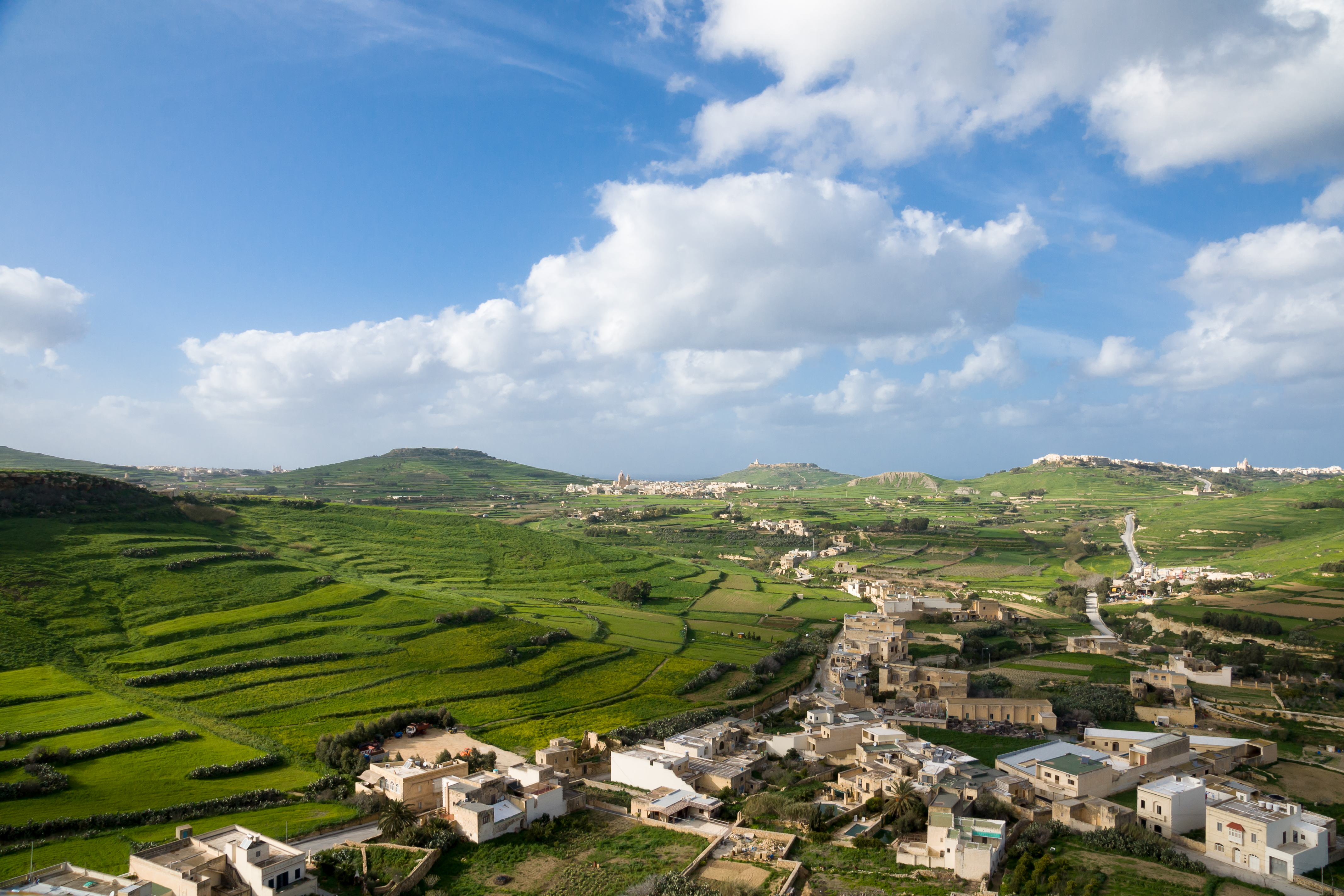 Victoria, Gozo, Malta (not Mdina): View from the Cittadella to the north